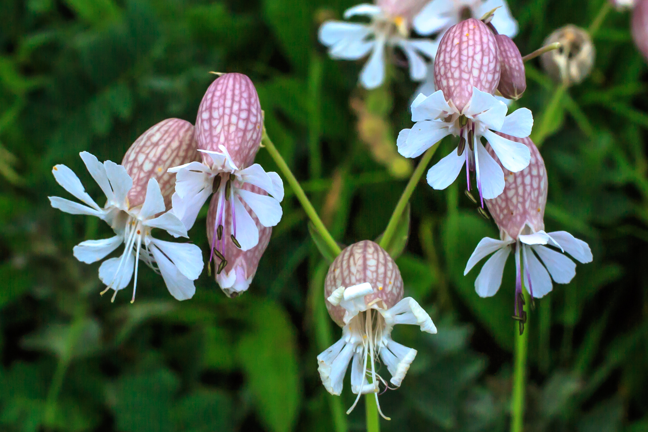 on the high level trail from Mannlichen to Kleine Scheidegg...Alpine flowers...